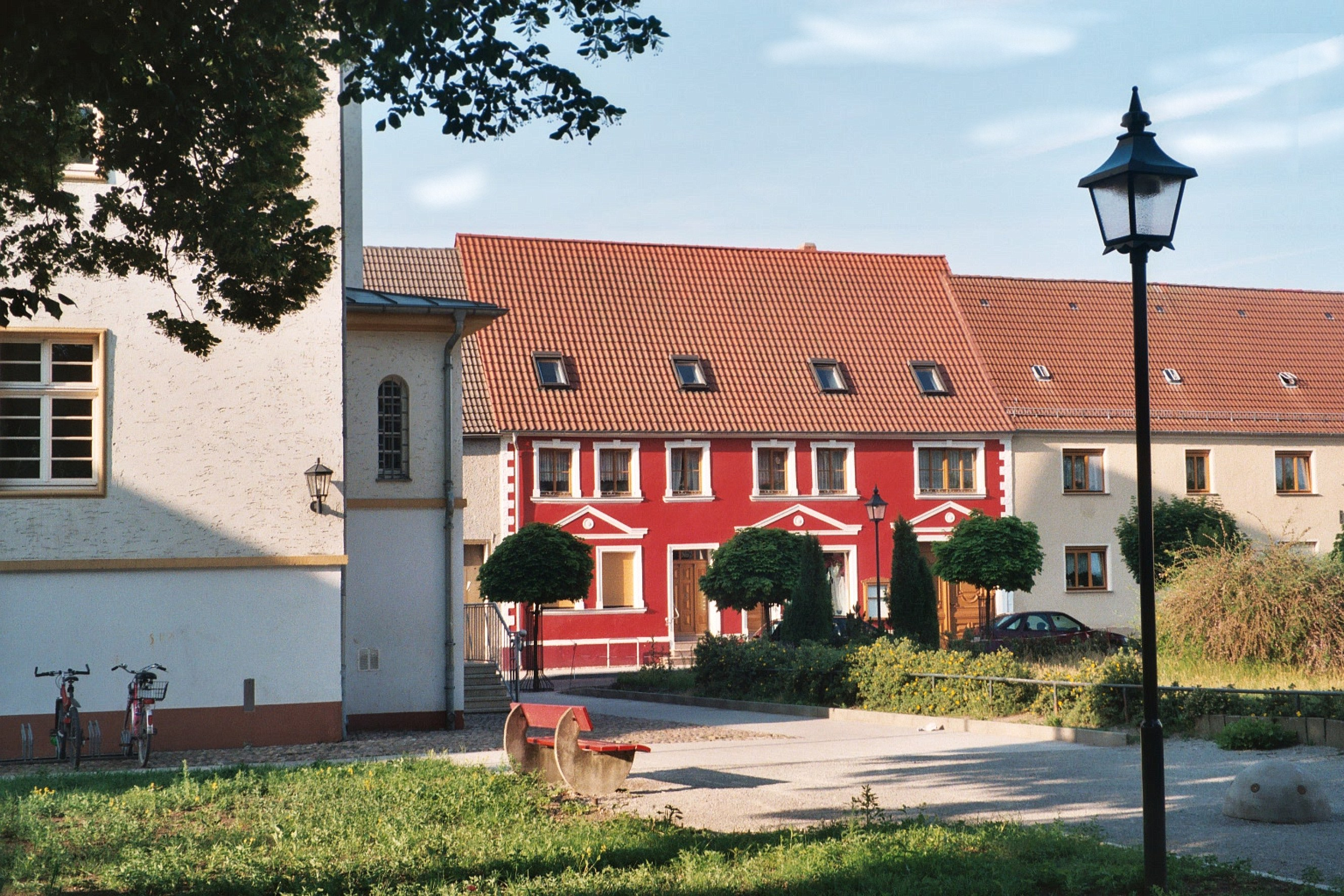 Barby, square between the church and the town hall